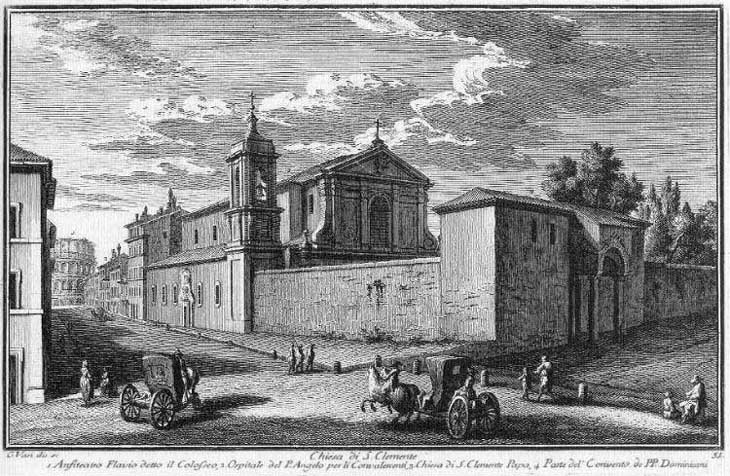 1) Anfiteatro Flavio (Colosseo); 2) Ospedale del Padre Angelo; 3) Chiesa di S. Clemente; 4) Monastero dei Padri Domenicani.